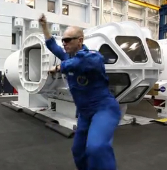 NASA Johnson Style is a volunteer outreach video project created by the students of NASA's Johnson Space Center. It was created as an educational parody of Psy's Gangnam Style. The lyrics and scenes in the video have been re-imagined in order to inform the public about the amazing work going on at NASA and the Johnson Space Center.